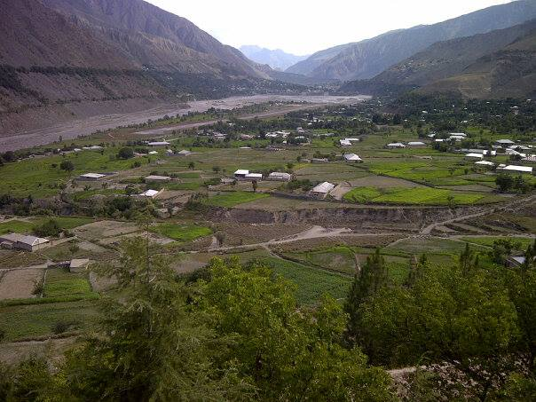 Chitral city parts, showing river at left and airport.